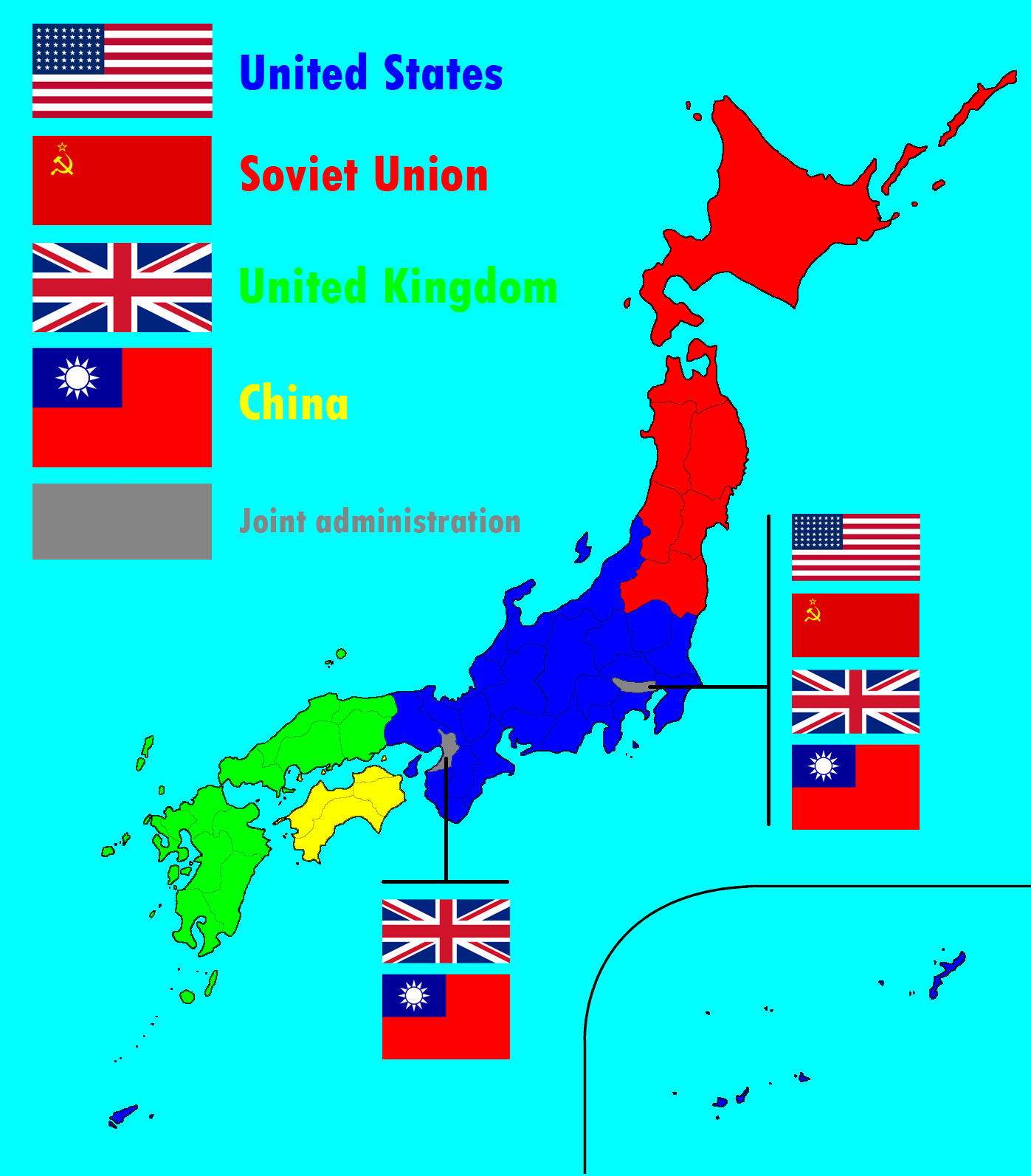 A proposed (hypothetical) post-WWII occupation plan for Japan, a la East and West Germany.